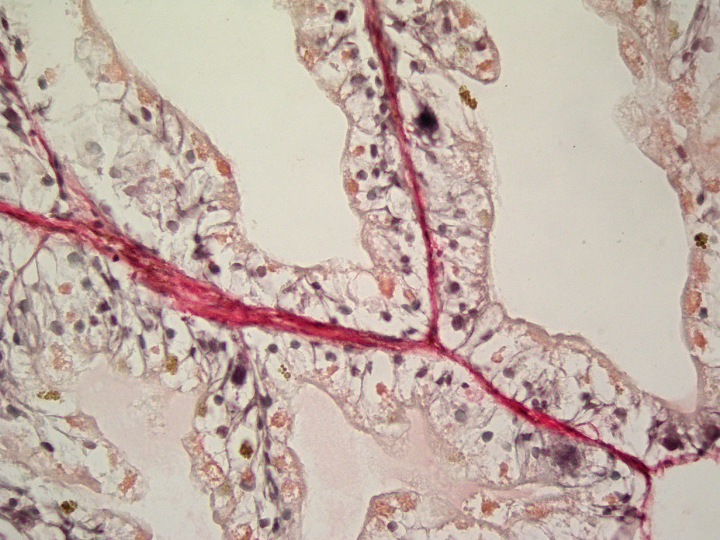 Deroceras laeve - gland cells in digestive gland, 400×.